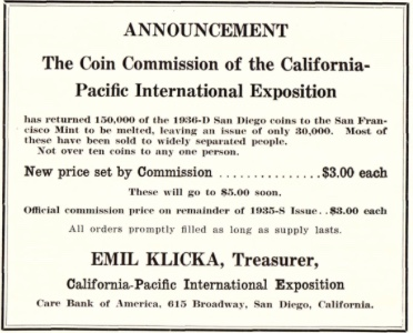 Advertisement regarding the California Pacific International Exposition half dollar